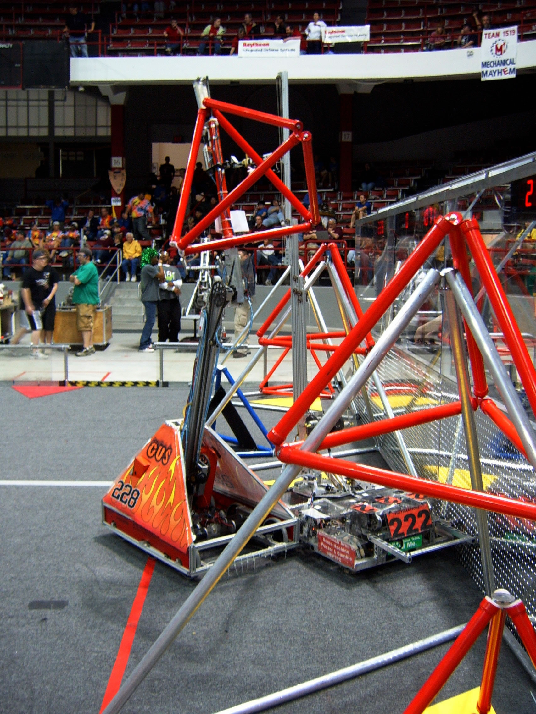 Here's a picture from the 2005 FIRST Robotics Competition competition that I took.